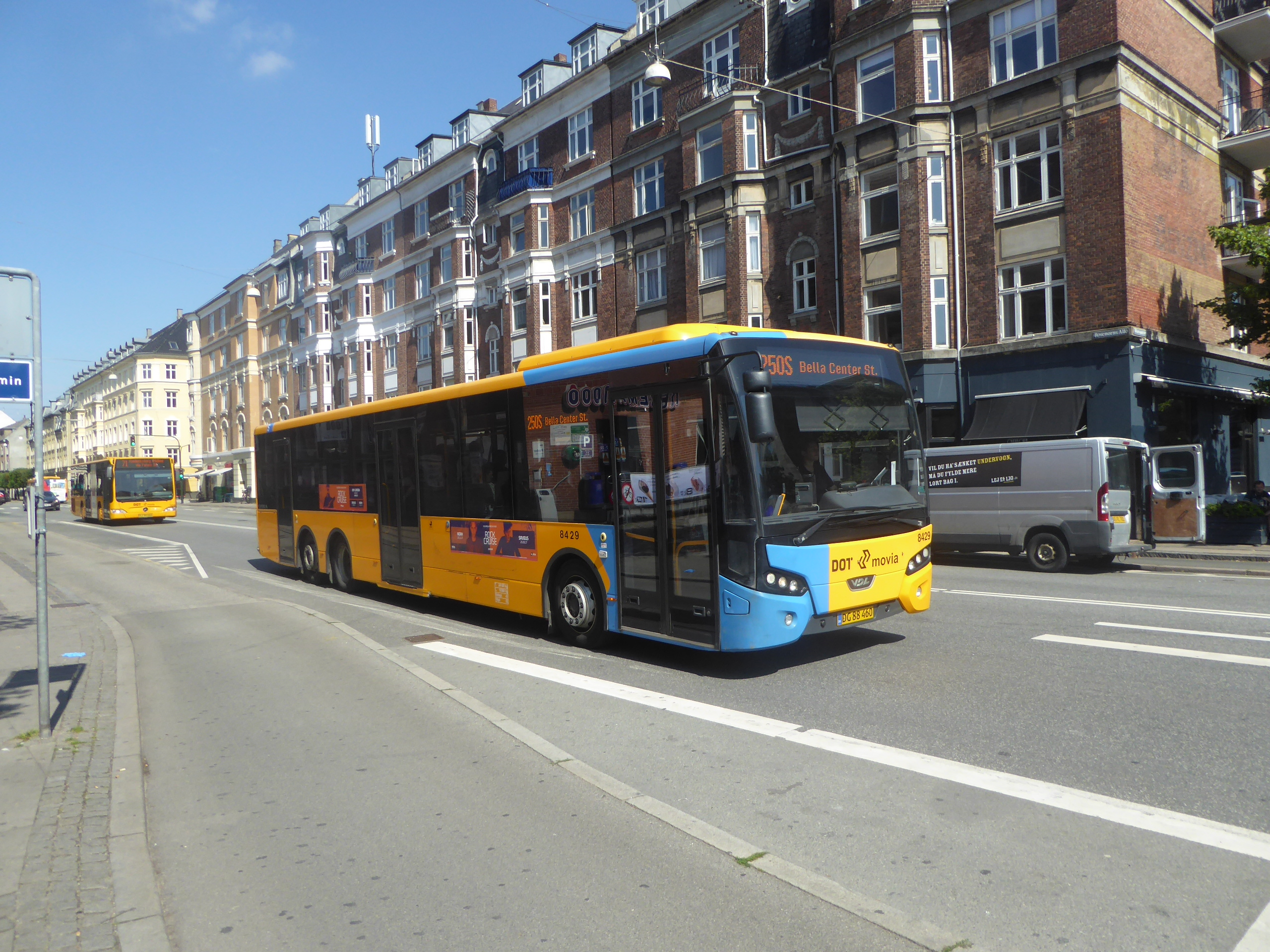 Movia bus line 250S of Rosenørns Allé in Frederiksberg in Copenhagen.